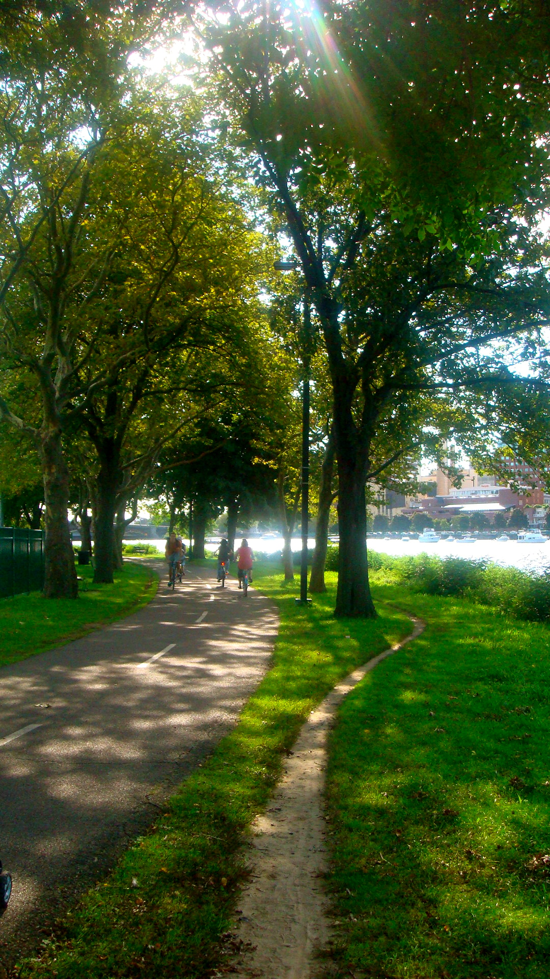 On the Boston side of the Charles River trail, looking across the Charles River to Cambridge, Massachusetts. Longfellow Bridge is visible in far background.